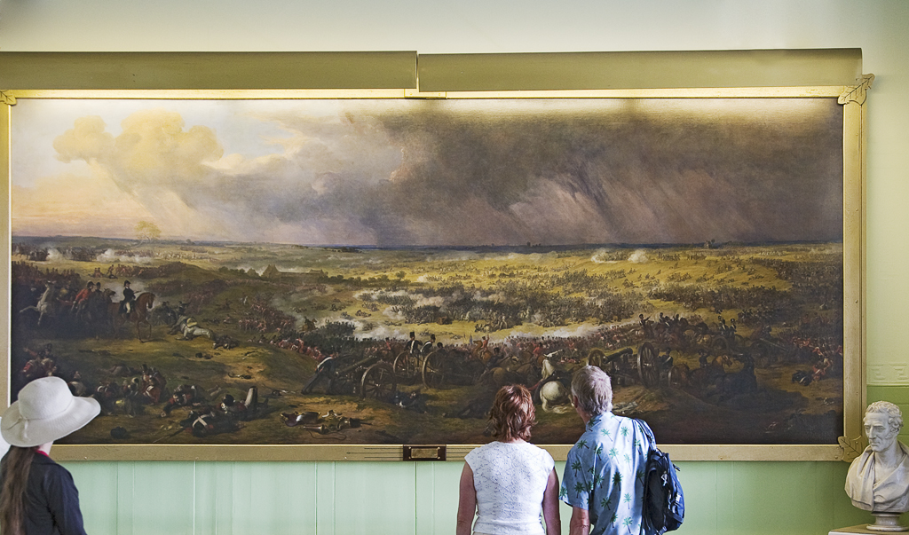 The Wellington Room Royal Military Academy Sandhurst England named after Arthur Wellesley First Duke of Wellington & here showing a depiction of Waterloo and his bust